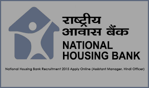 image